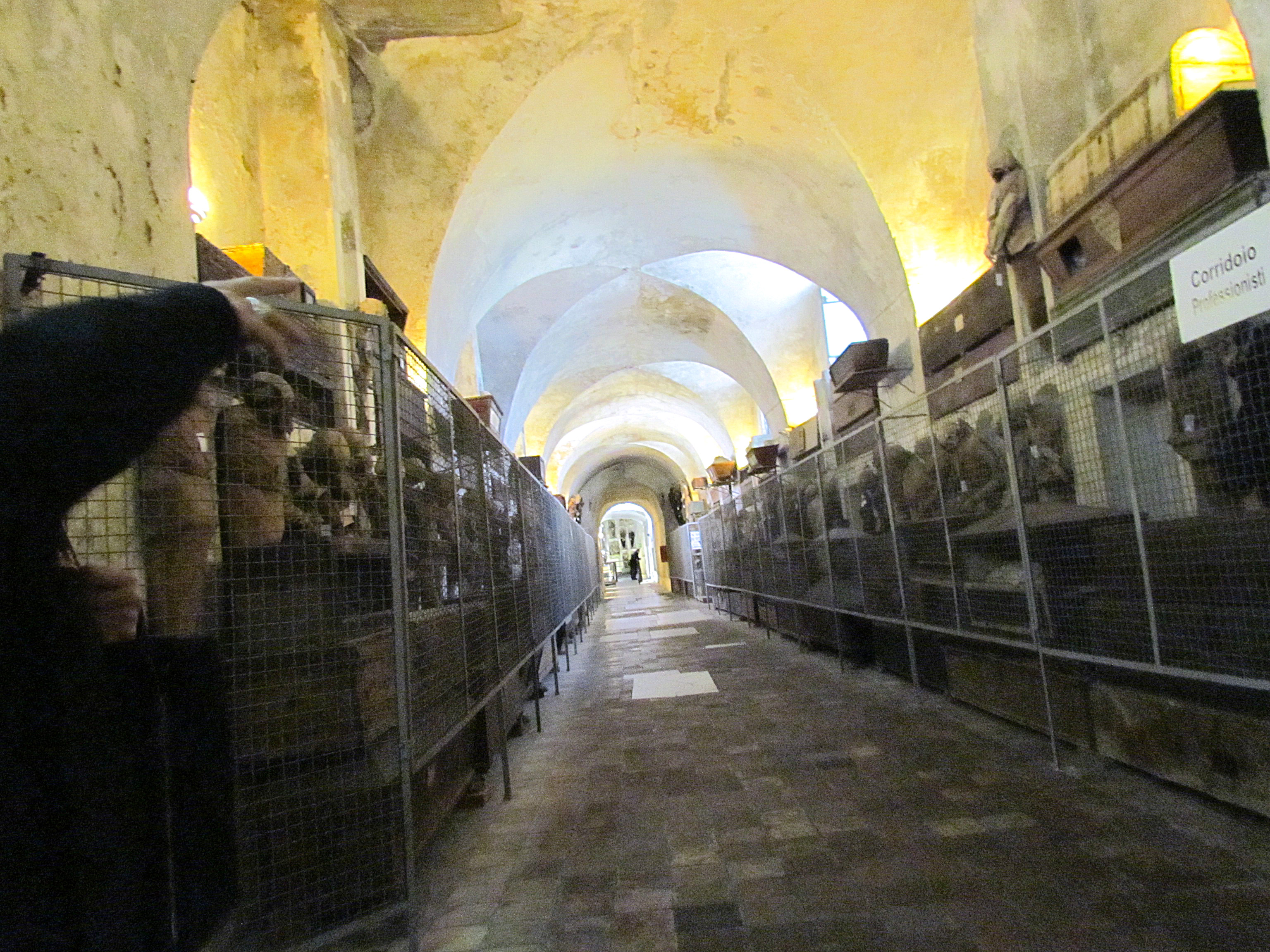 Hall of Professionals, Capuchin catacombs (Palermo)